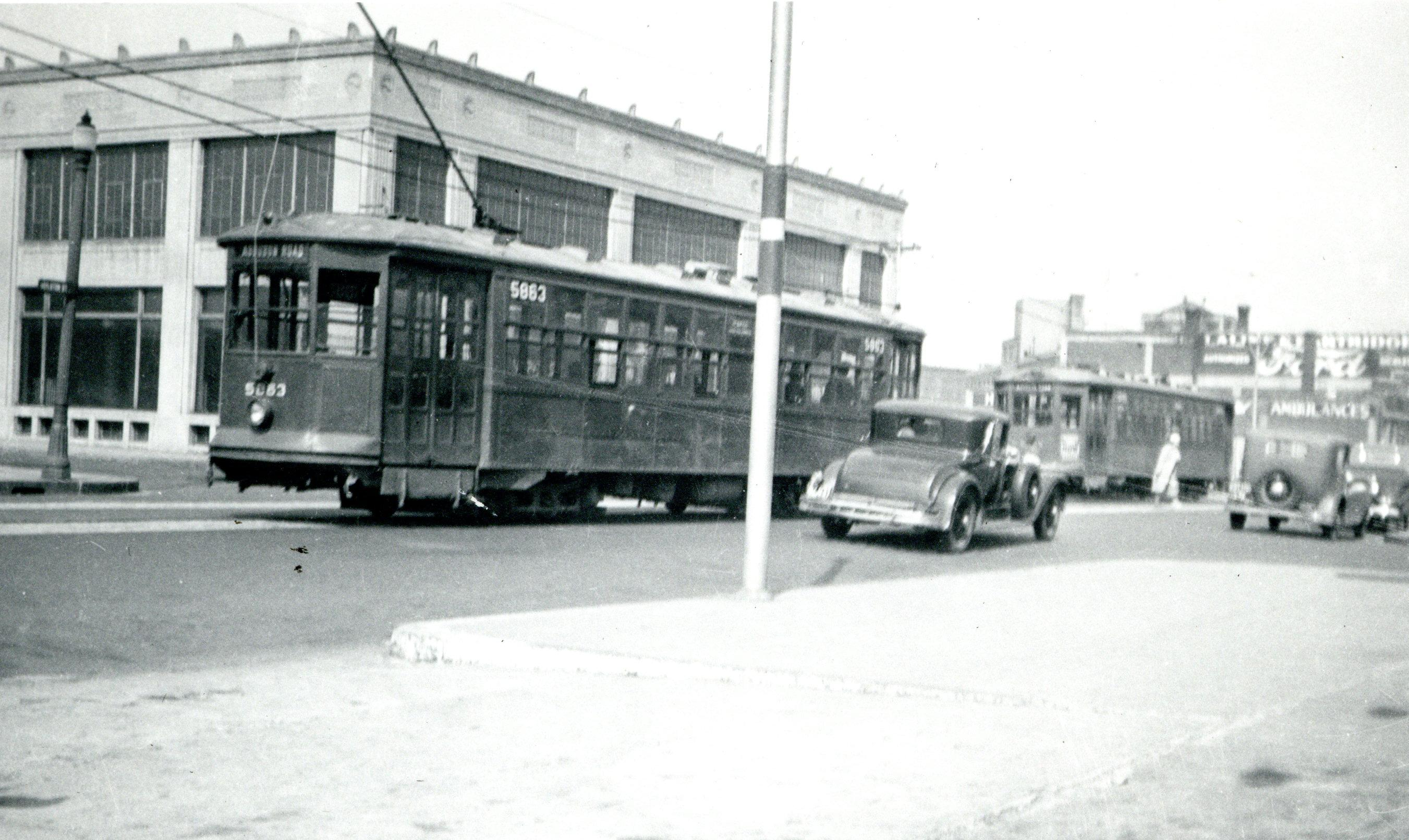 The two Type 5 streetcars of the Audubon Road–Massachusetts shuttle pass on Boylston Street at Jersey Street in 1933 or 1934